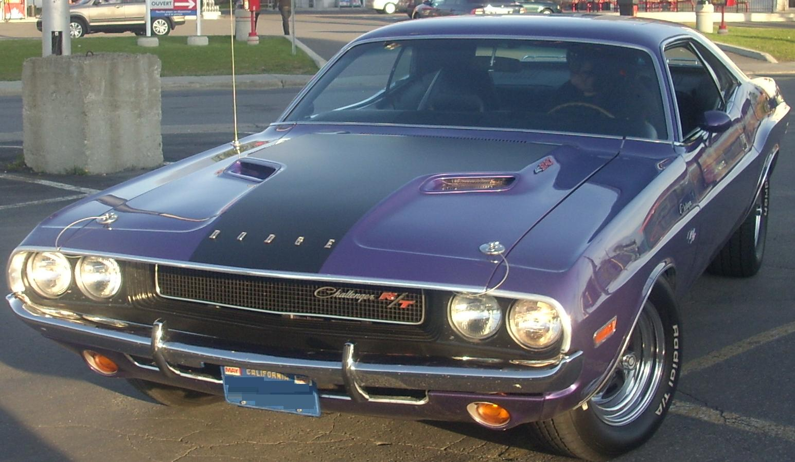 Dodge Challenger photographed in Montreal, Quebec, Canada at the Gibeau Orange Julep.